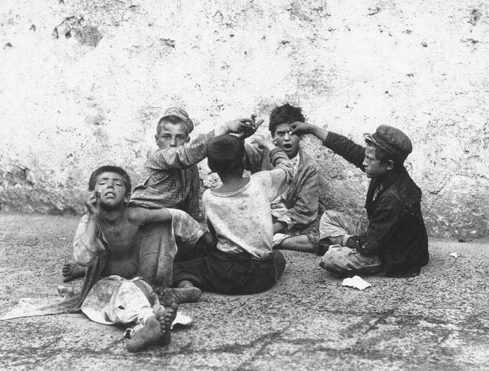 The game of the morra in Naples - Photo by Alinari bros. Street children playing morra in Naples in 1890s